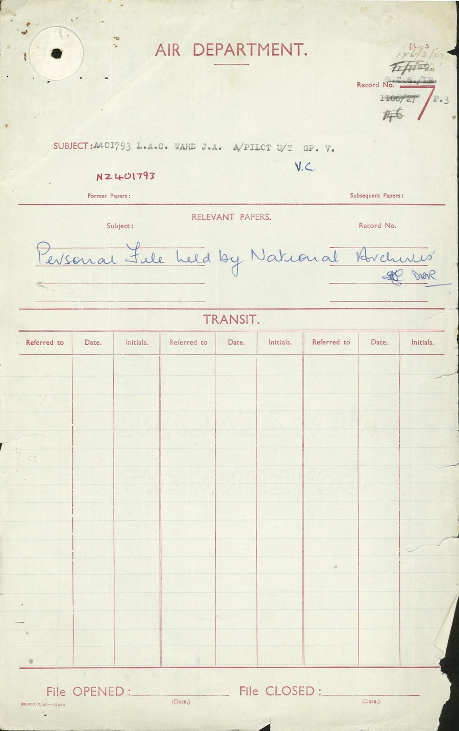 Personnel File of James Allen Ward (1939 - 1945). Served during WWII in the New Zealand Air Force. Recipient of the Victora Cross (Gallantry Medal). Archives New Zealand Reference: AABK 18806 W5602 1